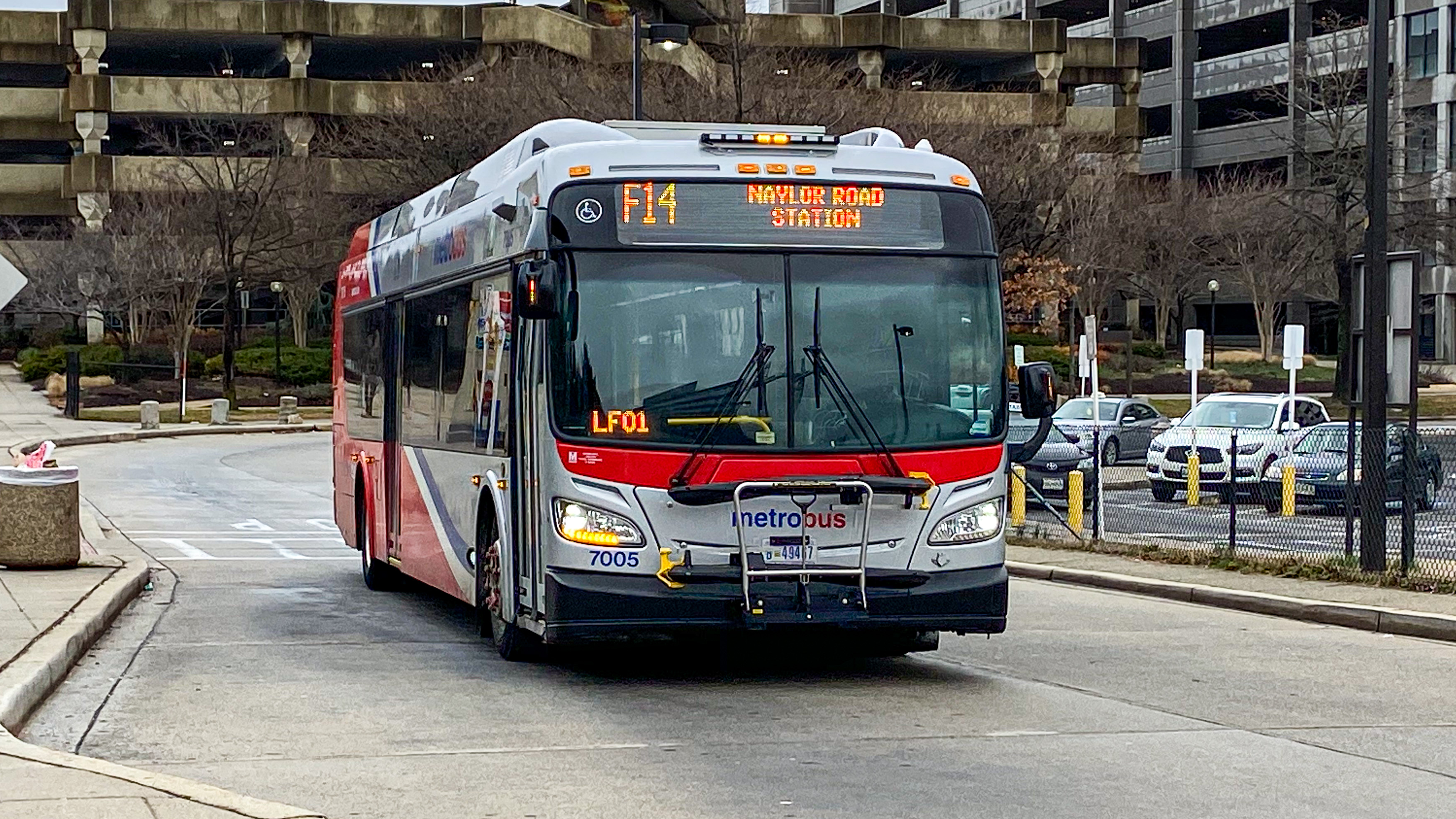 WMATA New Flyer XDE40 7005 on F14 At New Carrollton